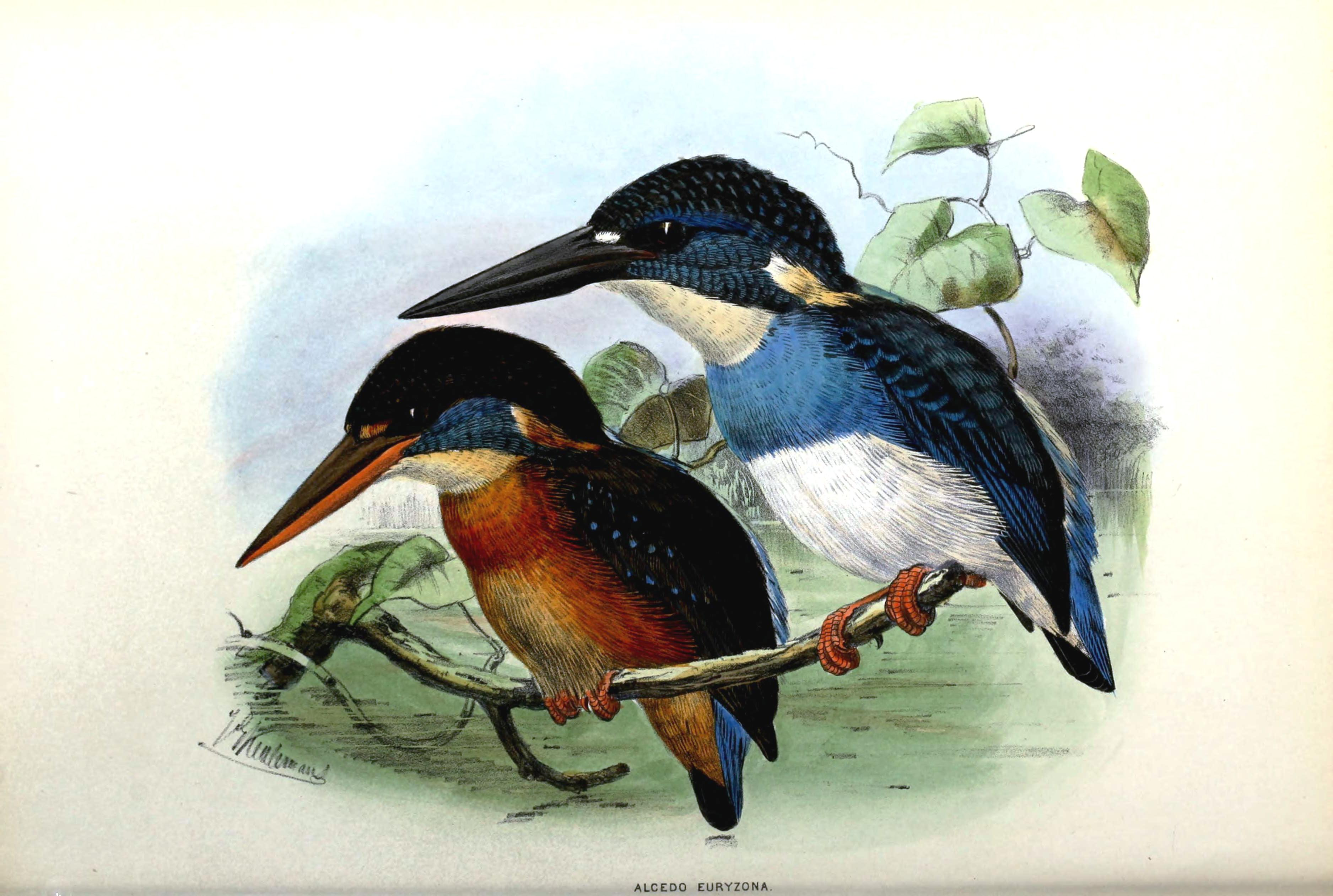 Alcedo euryzona by Keulemans